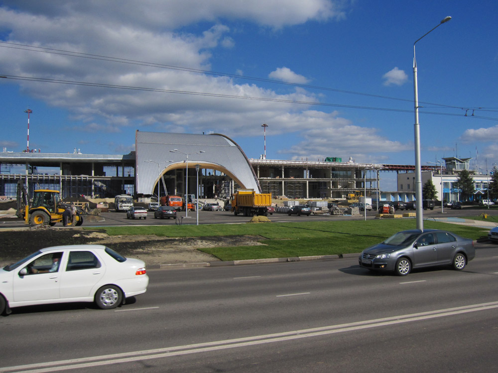 Construction of new terminal in Belgorod Airport (August 31, 2012).